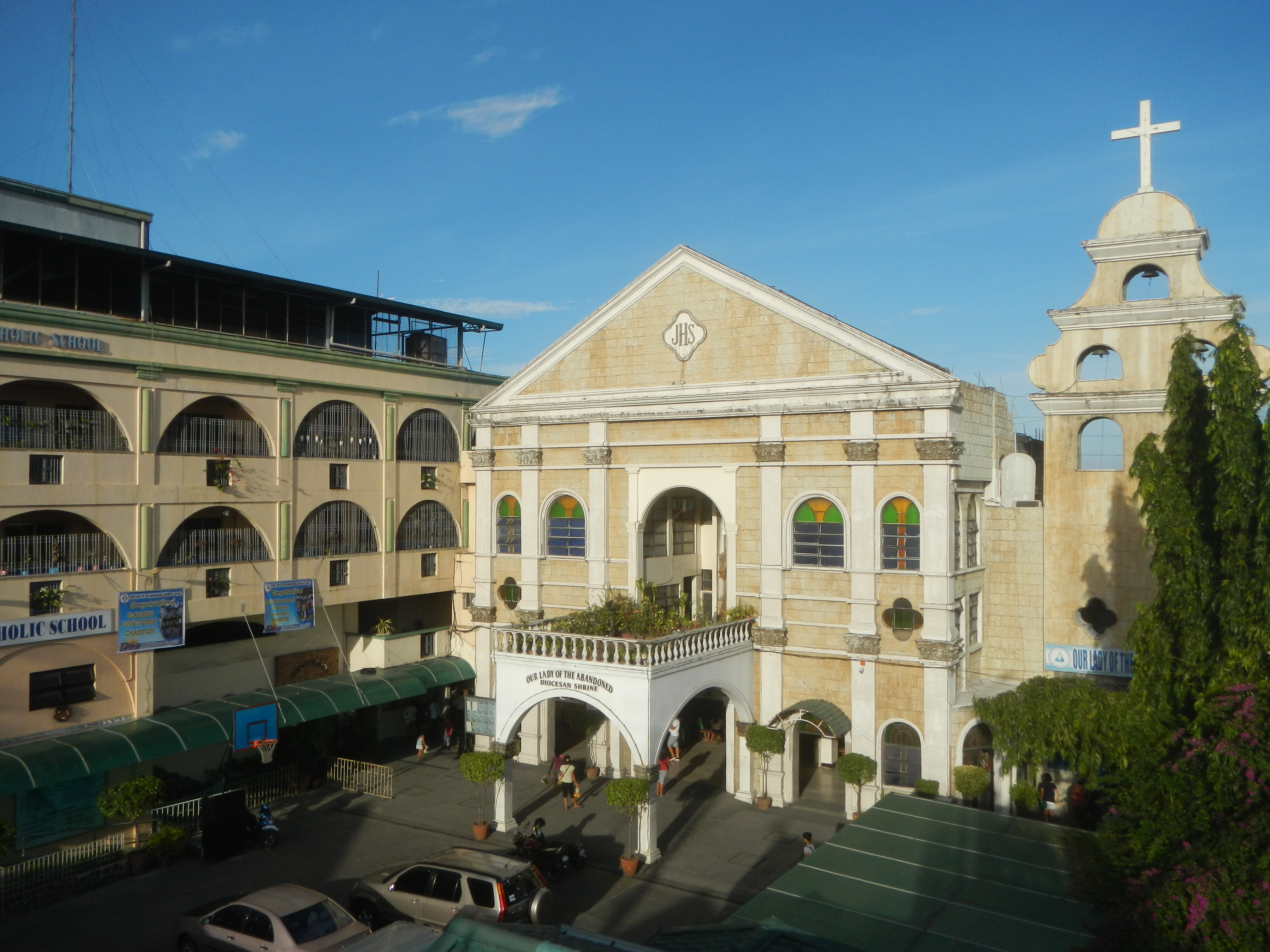 Poblacion Footbridge, Plaza Central and New Public Market, Muntinlupa City Proper Our Lady of the Abandoned Catholic School (National Road, Poblacion, Muntinlupa City) Our Lady of the Abandoned Diocesan Shrine and Parish Church (National Road, Poblacion, Muntinlupa City) Dedicated on May 20, 1995 National Road (Alabang, Bayanan, Putatan and Poblacion), Muntinlupa City Barangays Sucat 14°27'19"N 121°2'51"E Alabang 14°24'59"N 121°2'33"E Bayanan 14°24'28"N 121°2'44"E Putatan 14°23'50"N 121°2'14"E Poblacion 14°22'48"N 121°1'53"E Buli 14°26'37"N 121°2'54"E City of Muntinlupa Alabang AyalaAlabang Poblacion, Muntinlupa New Bilibid Prison Bureau of Corrections (Philippines) Putatan, Muntinlupa Tunasan Philippine highway network (Note: Judge Florentino Floro, the owner, to repeat, Donor Florentino Floro of all these photos hereby donate gratuitously, freely and unconditionally Judge Floro all these photos to and for Wikimedia Commons, exclusively, for public use of the public domain, and again without any condition whatsoever).